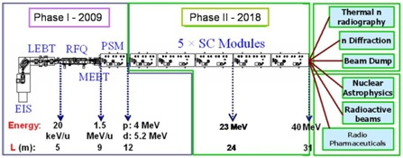 SARAF Phase I and II Conceptual Layout